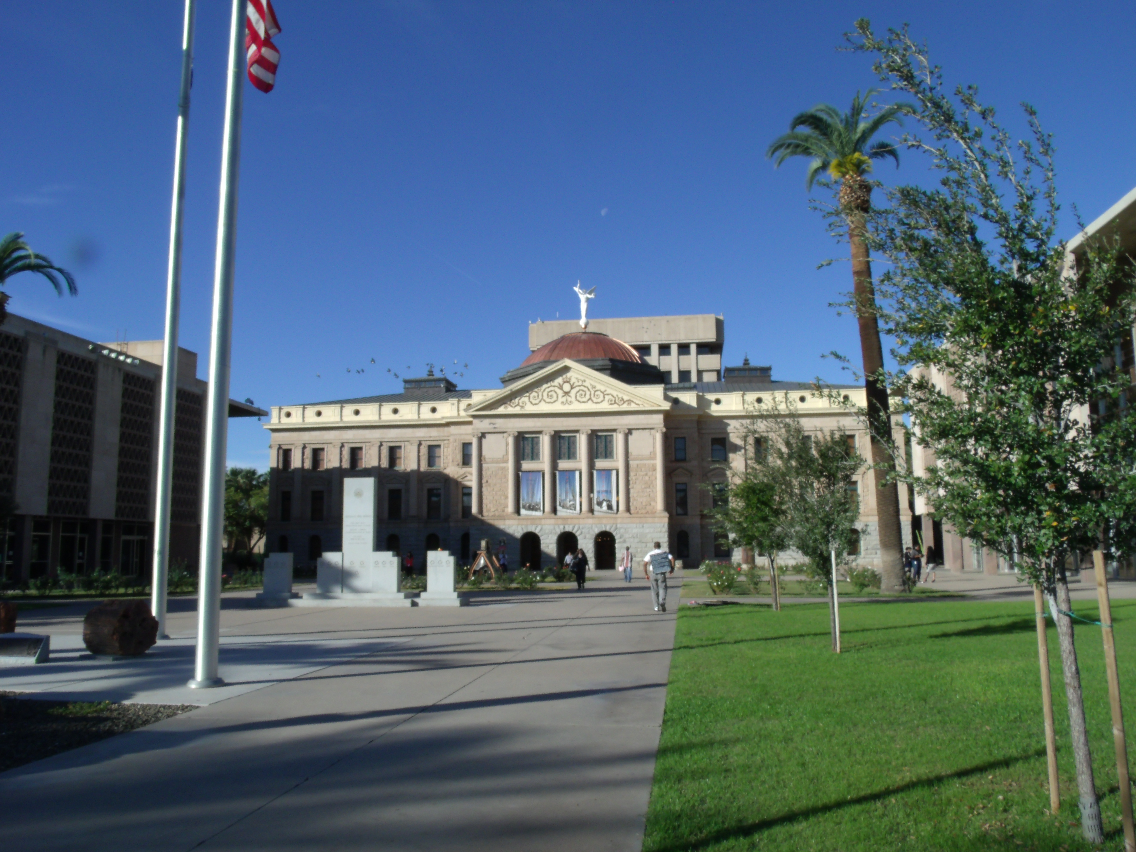 The Arizona State Capital built in 1901 is now the Arizona State Capitol Museum.